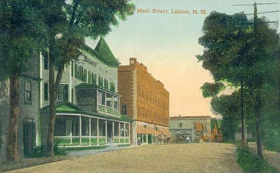 Main Street, Lisbon, NH; from a c. 1910 postcard.